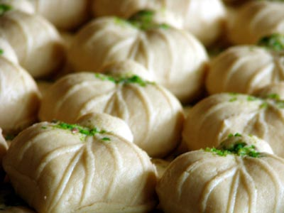 Sondesh